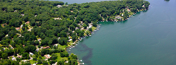 This image is depicting an aerial view of the Candlewood Shores neighborhood on Candlewood Lake in Brookfield, Connecticut.